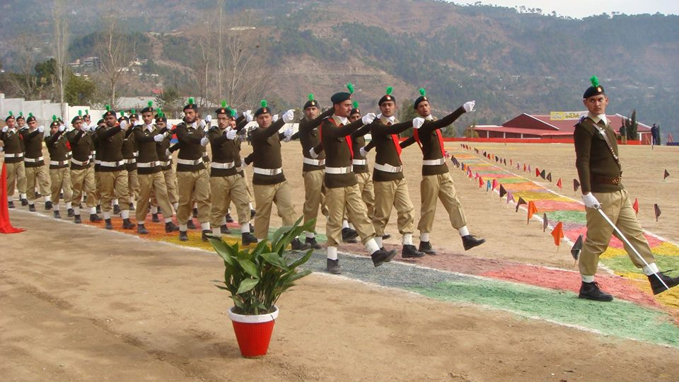 Khan House contigent before the Saluting Dais